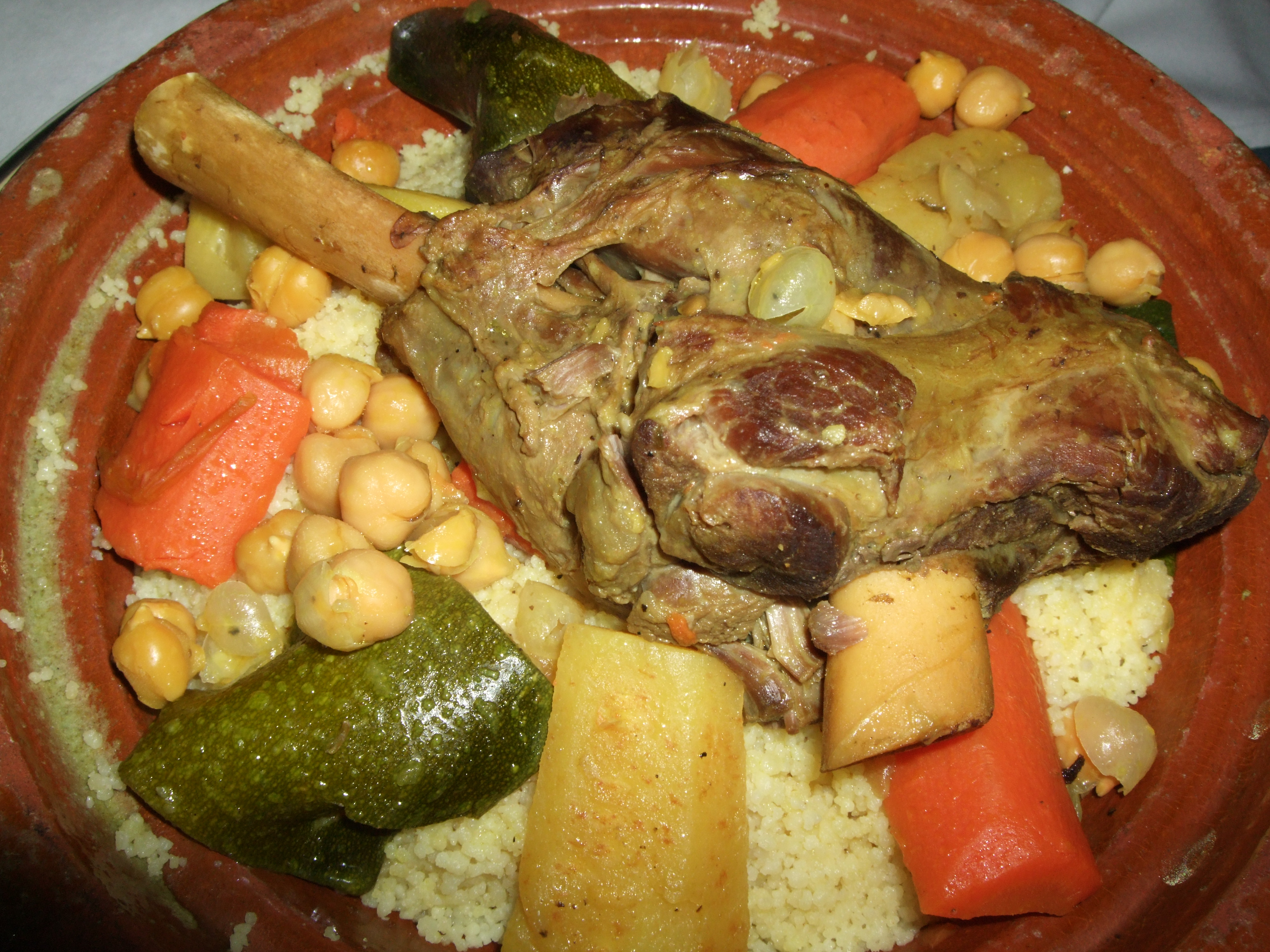 (traditionally steamed couscous, topped with lamb & stewed vegetables)